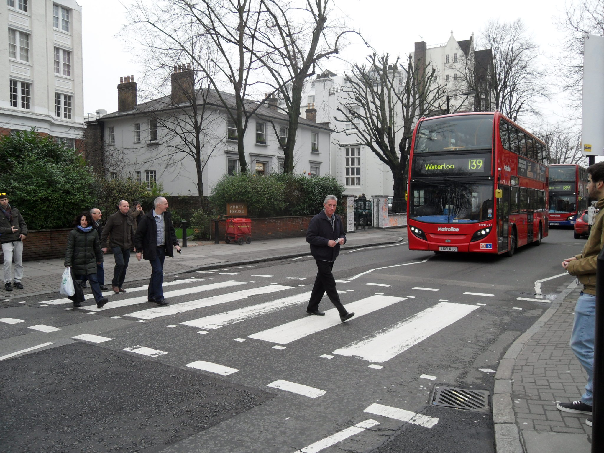 Abbey Road zebra crossing & Abbey Road Studios